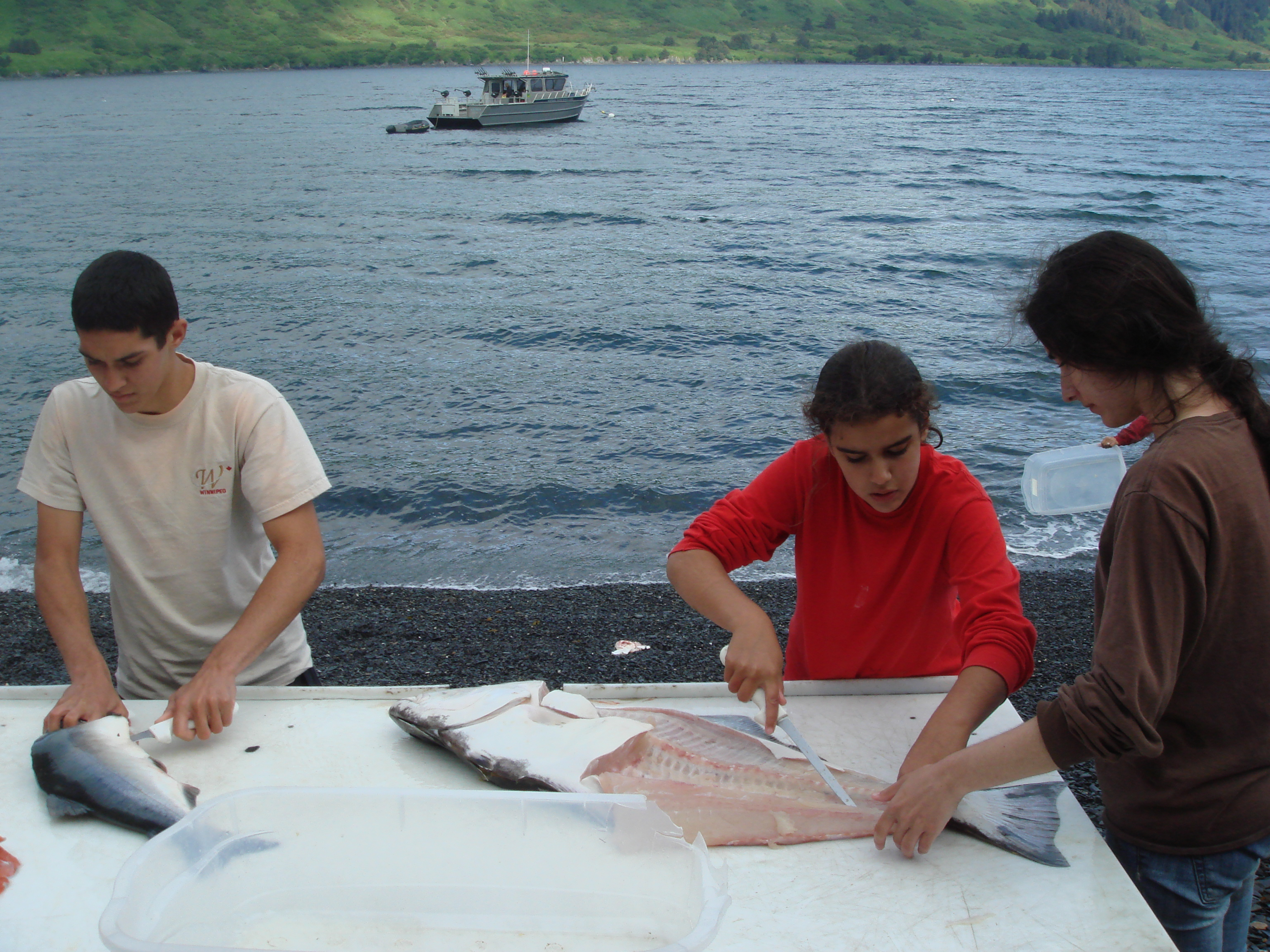 Teenagers fileting fish on Raspberry Island